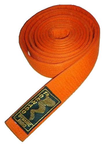 Karate belt. I release this under GFDL.